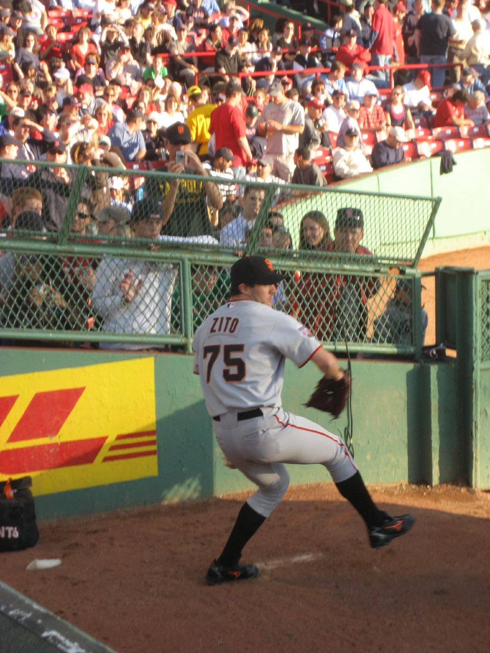 Barry Zito warming up in the pen before game 1 in Fenway!